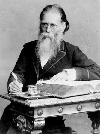 Zvi Hermann Schapira, Jewish-Russian mathematician and zionist